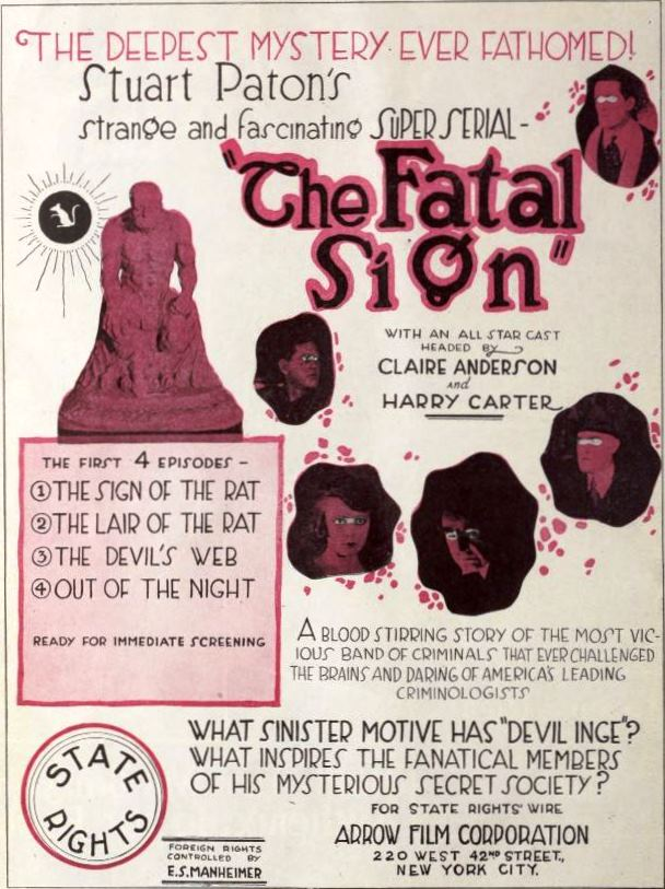 Advertisement for the American drama film serial The Fatal Sign (1920), on page 22 of the January 3, 1920 Exhibitors Herald.